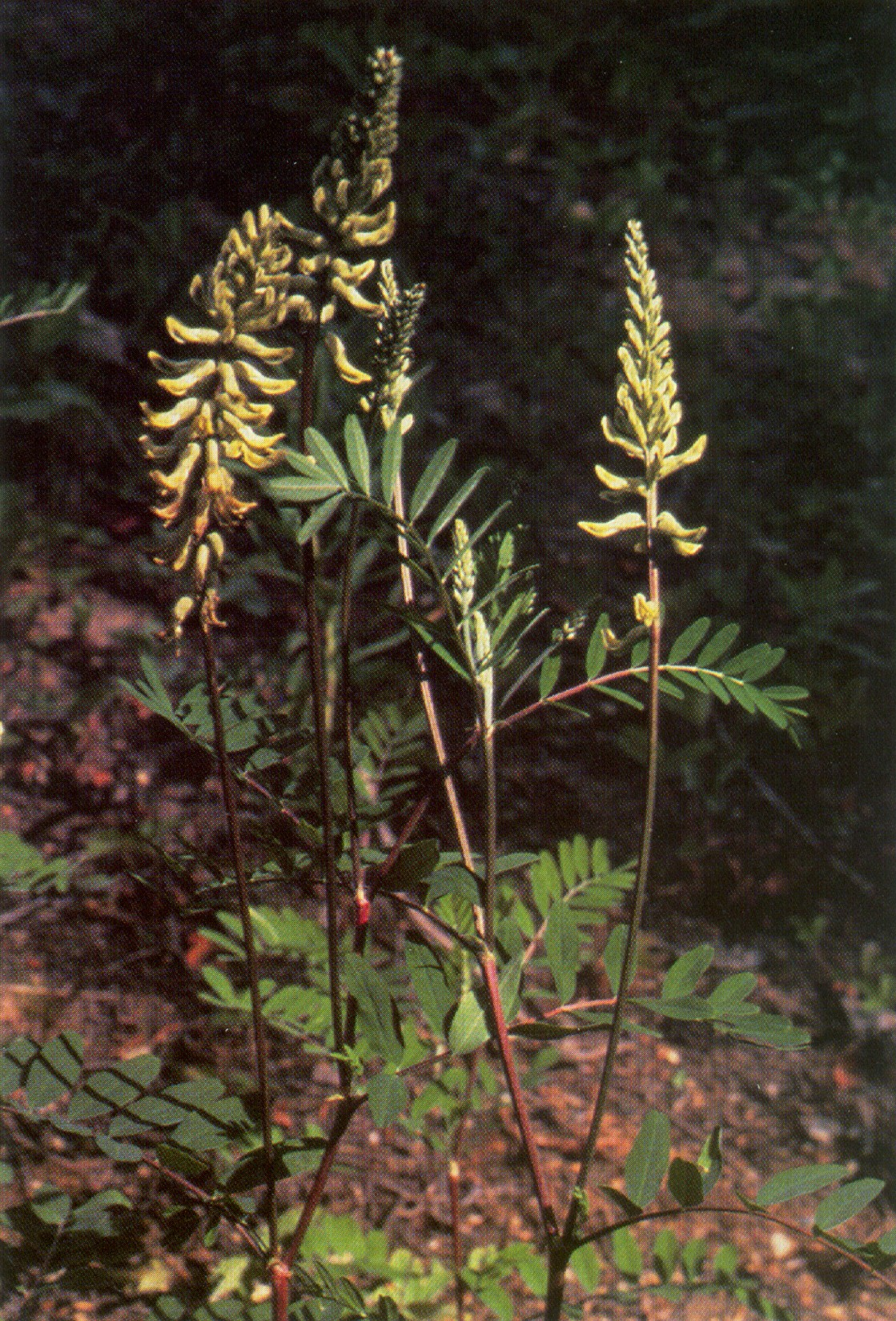 Joe F. Duft @ USDA-NRCS PLANTS Database / USDA NRCS. 1992. Western wetland flora: Field office guide to plant species. West Region, Sacramento.